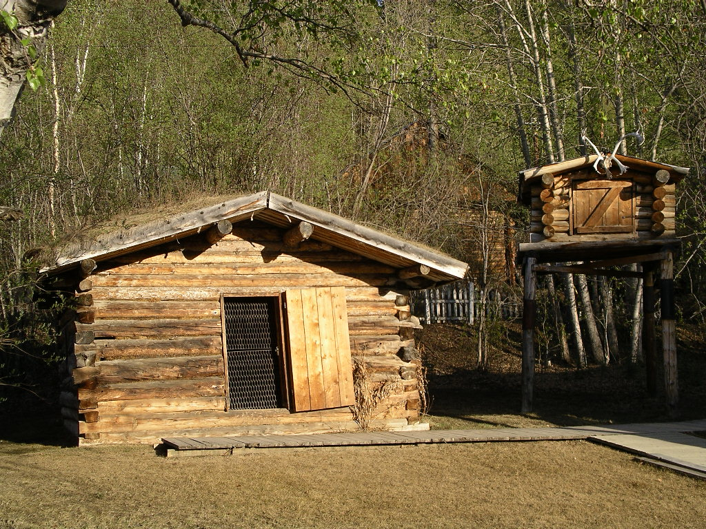 Cabins from the past